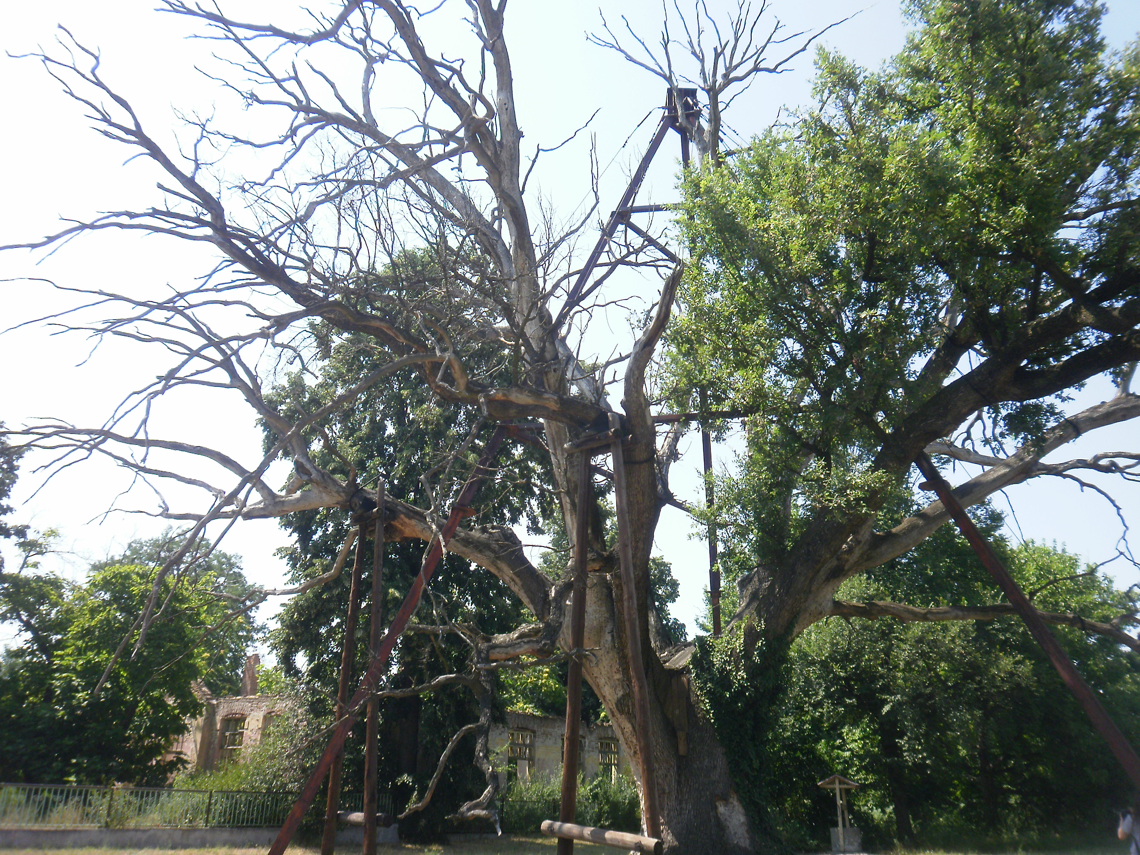 Quercus robur in Granit, Bulgaria - the oldest tree in Bulgaria.